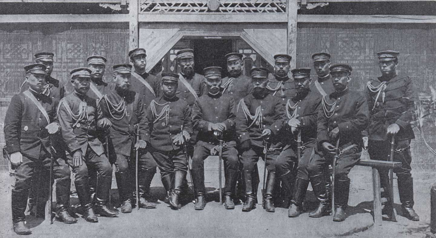 General Kuroki and his Staffs after the Battle of Yalu River